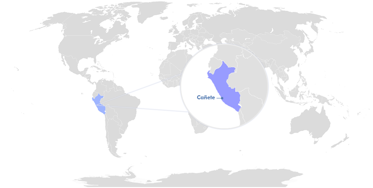 Humanitarian Spanish Caritas Work